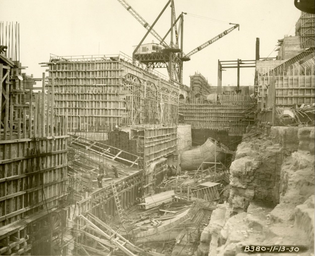 Construction of the first phase of the Beauharnois hydroelectric generating station.